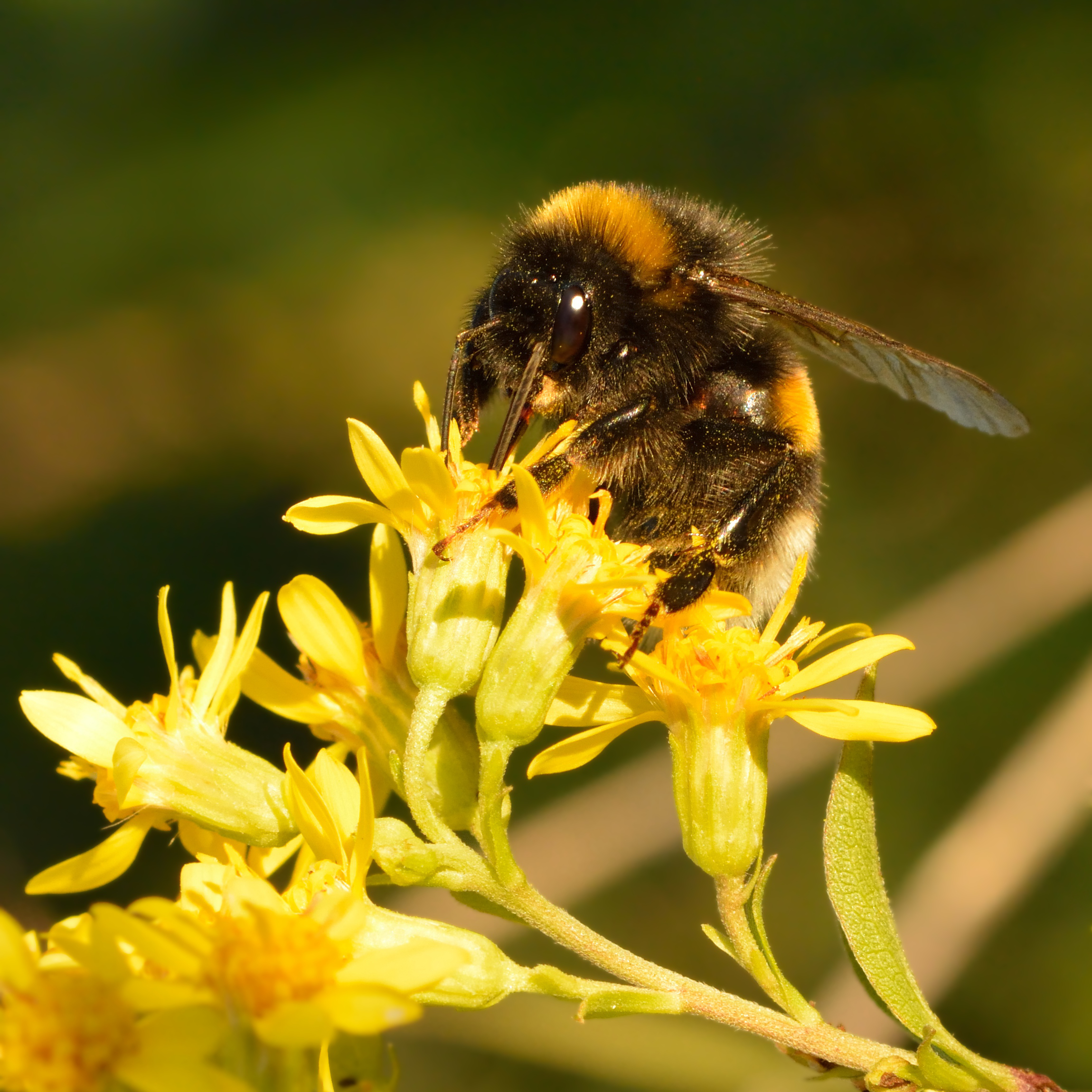 Cryptic bumblebee (Bombus cryptarum) on the European goldenrod (Solidago virgaurea). Keila, Northwestern Estonia.